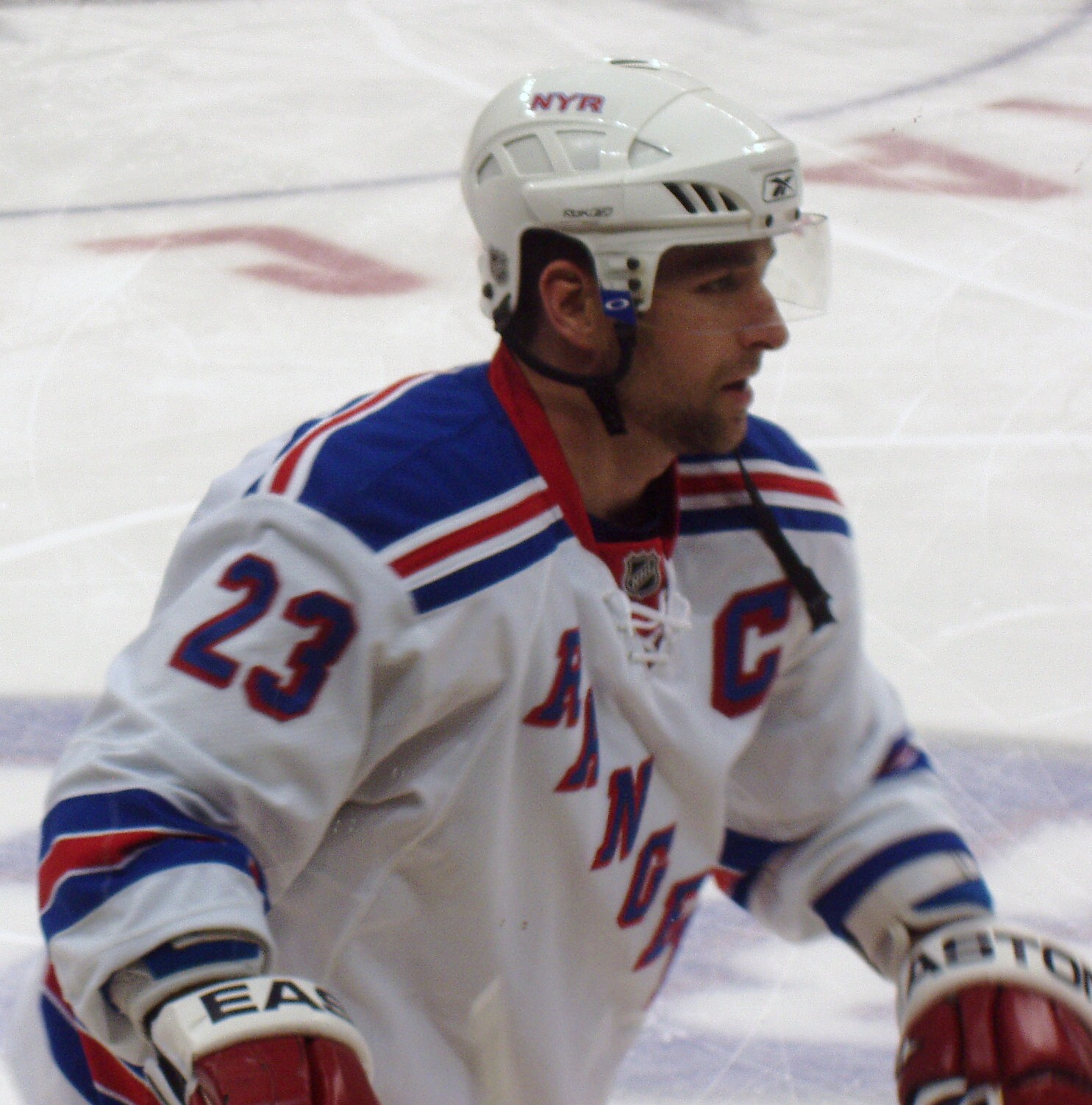 Chris Drury @ Staples Center